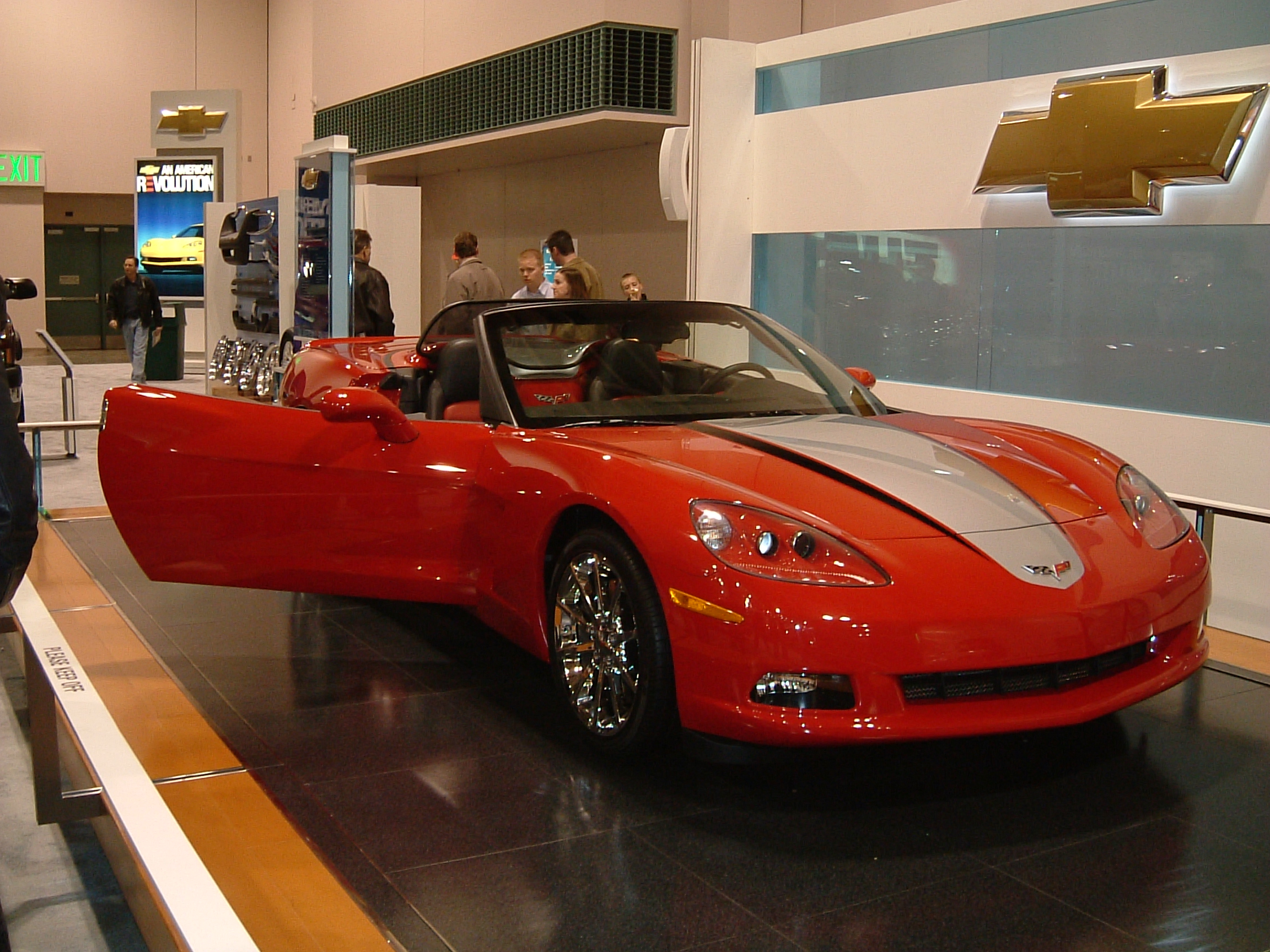 2006 Chevy Corvette